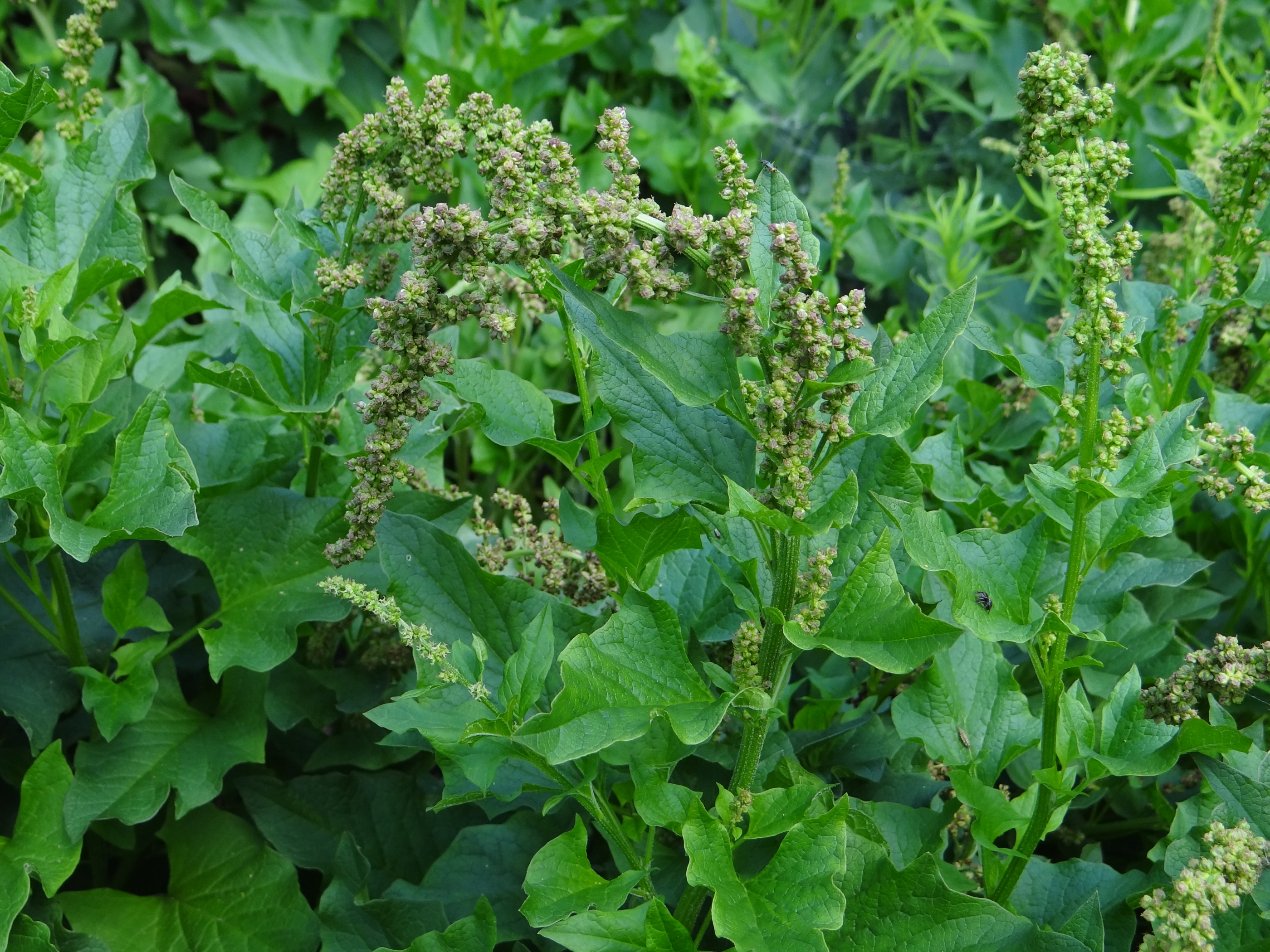 Chenopodium bonus-henricus (location:Botanical Garden in Cracow)